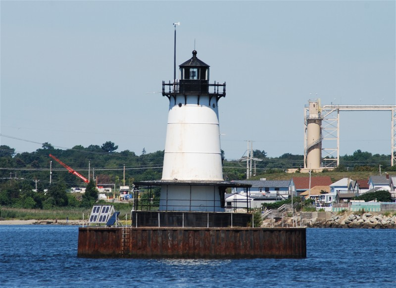 Borden Flats Lighthouse, Taunton River, Fall River, Massachusetts